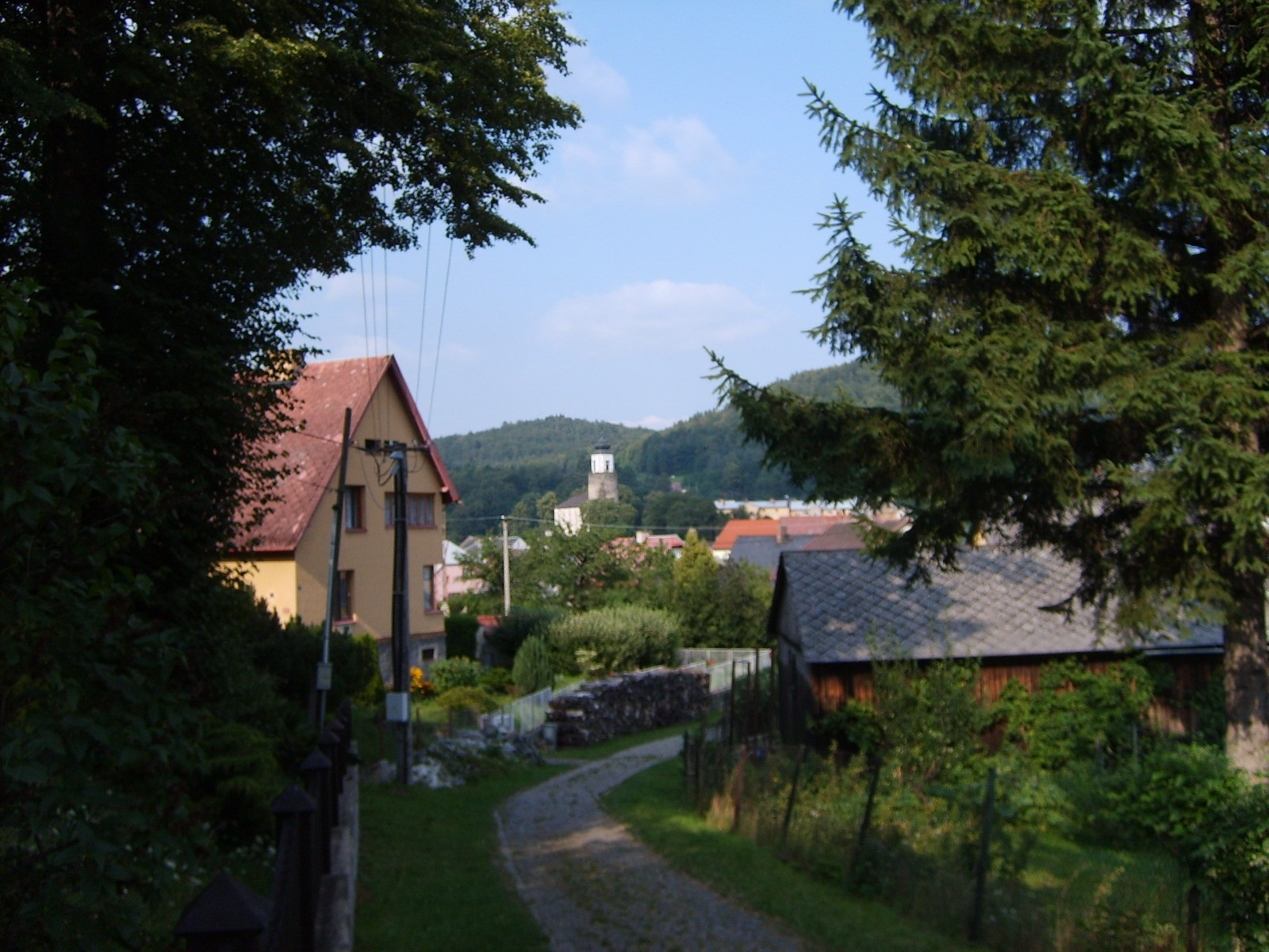 Church tower in Žulová from western